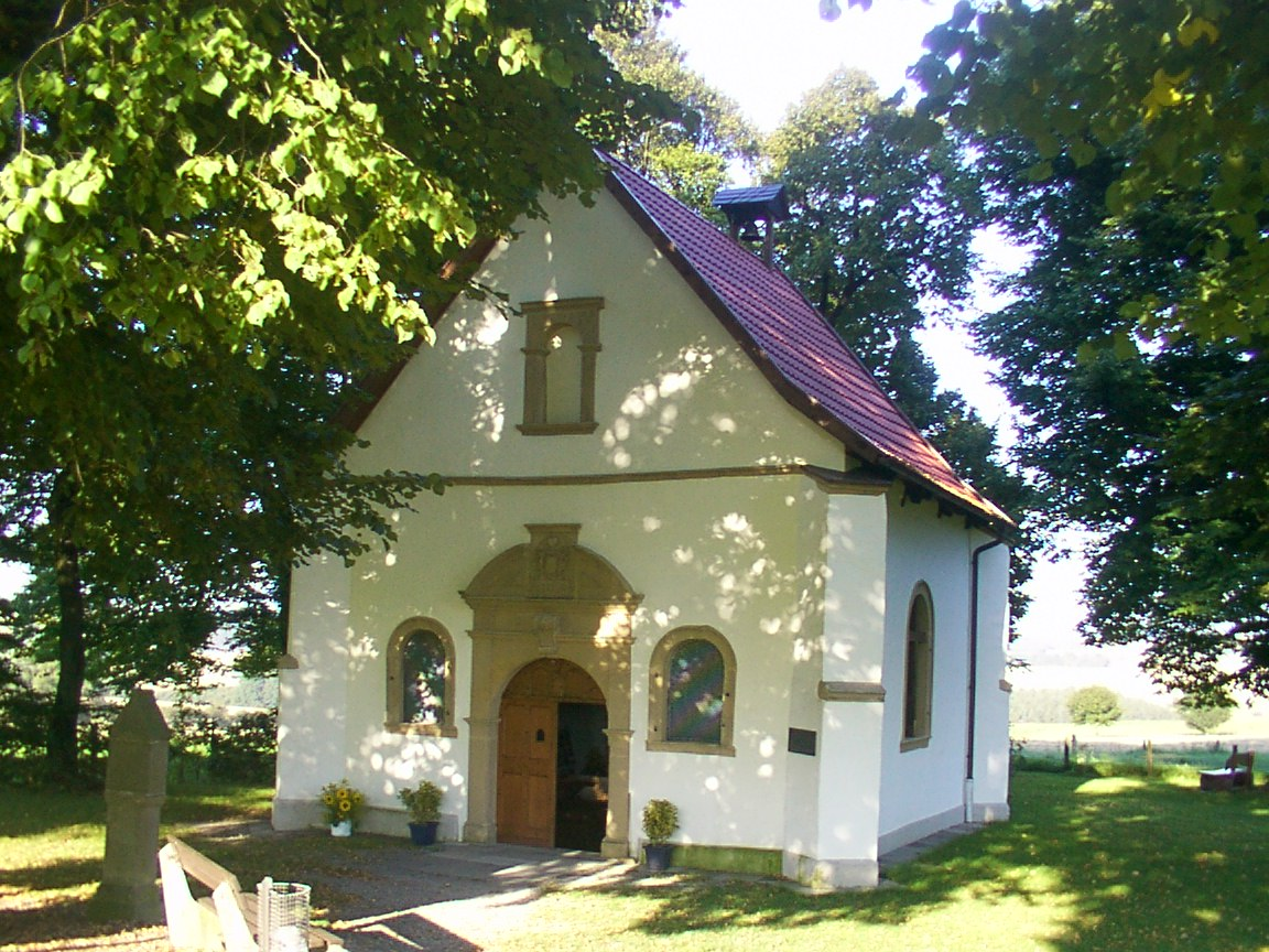 Borchen: Chapel to The Holy Soul in Dörenhagen